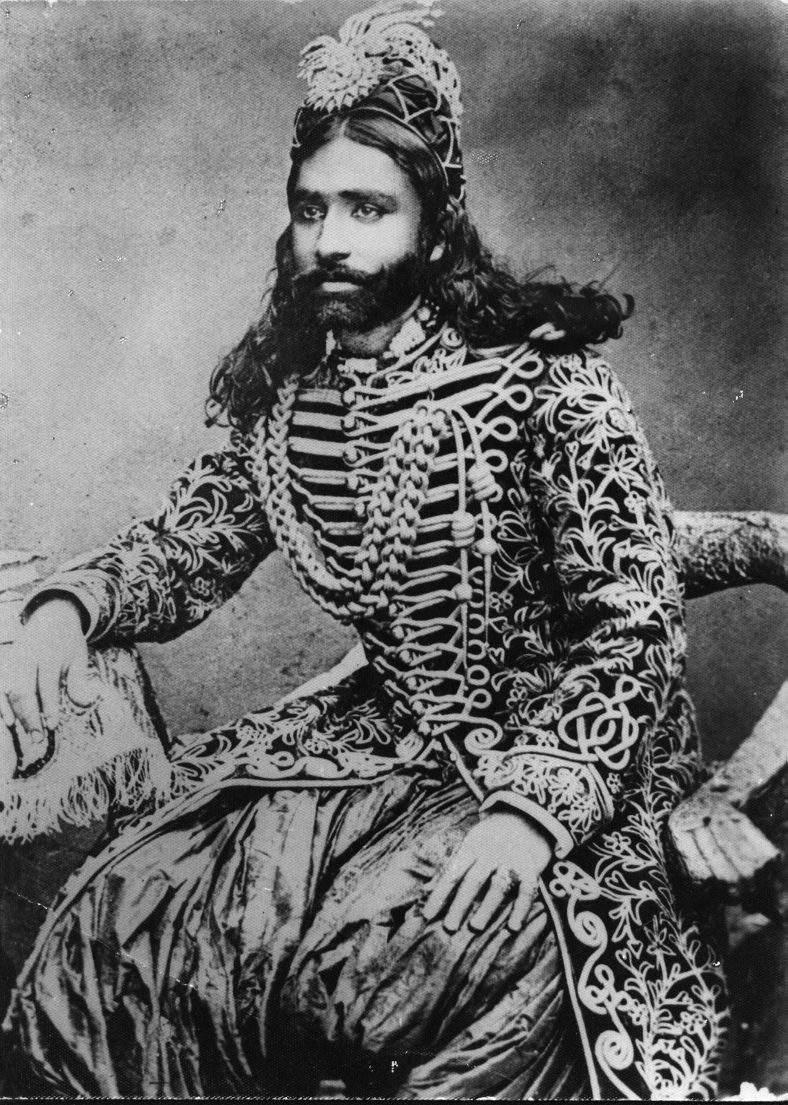 Official Coronation Portrait of Sadiq IV of Bahawalpur